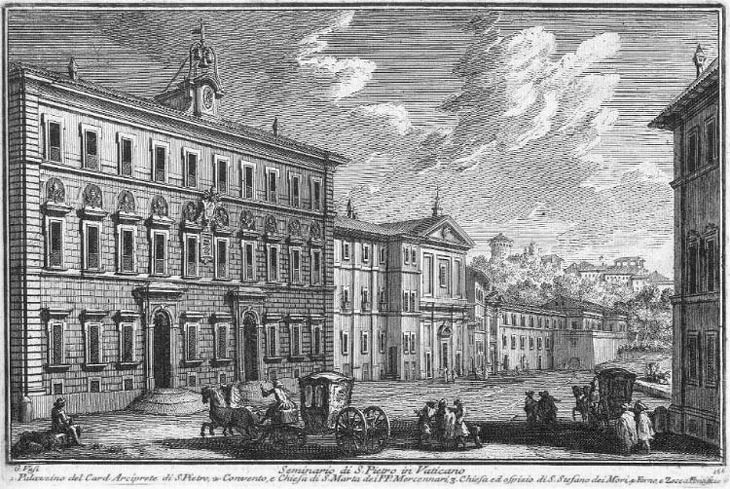 1) Palazzino del Cardinale Arciprete di S. Pietro; 2) S. Marta; 3) S. Stefano degli Abissini; 4) Forno (Bakery).